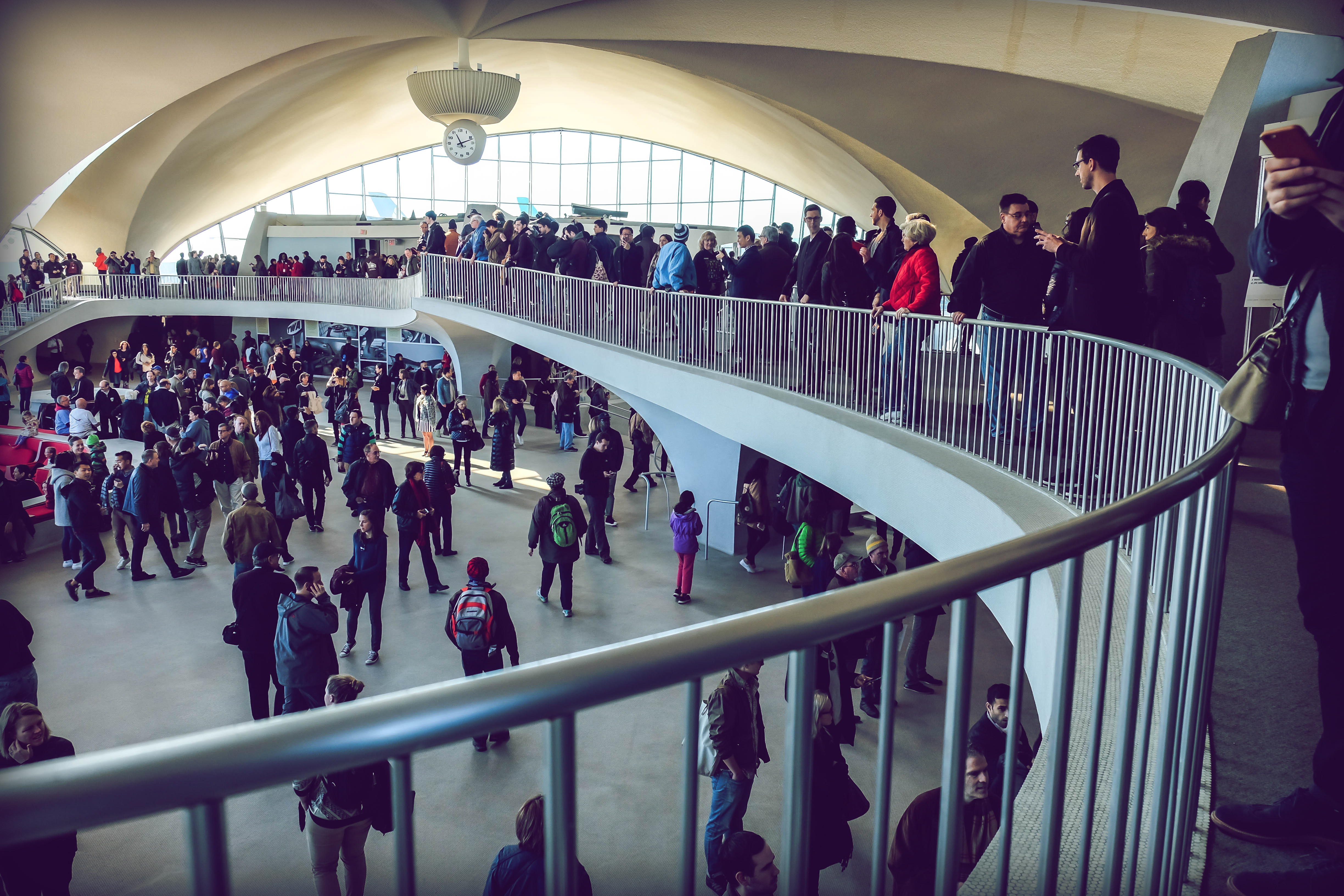 The crowded terminal.Site: TWA Terminal